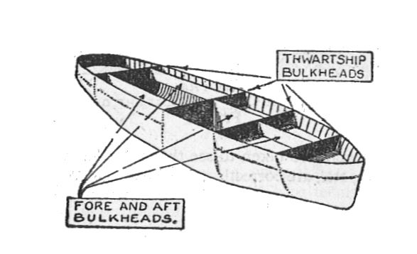 Fig. 9 Compartments: watertight subdivision Ships are divided into compartments by walls called bulkheads. Access to these compartments is by doors or hatches, designed, when closed, to keep the compartment watertight.